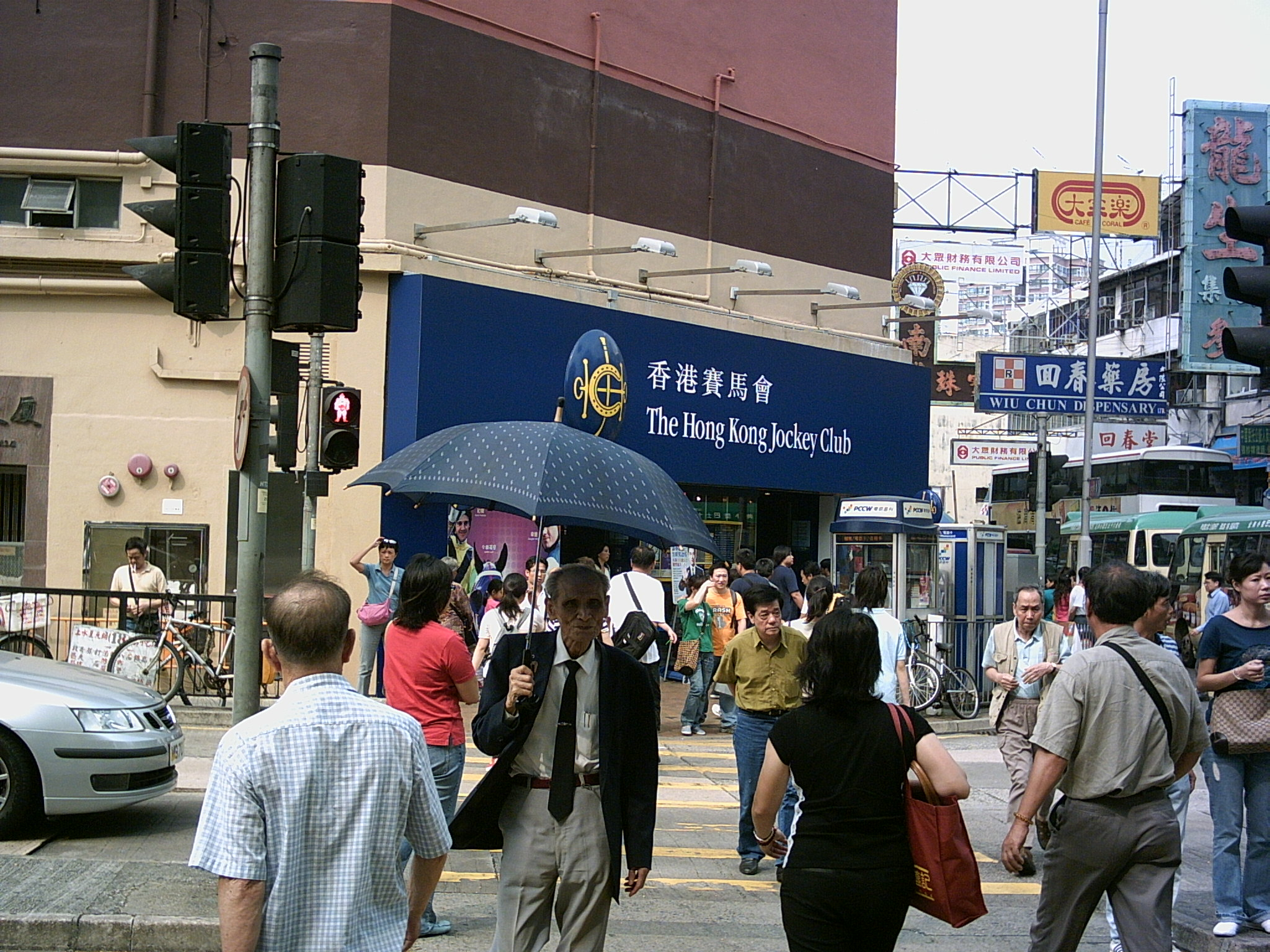 Hong Kong Jockey Club Off-betting Centre in Sheung Shui. Taken by myself on October 22nd, 2006.